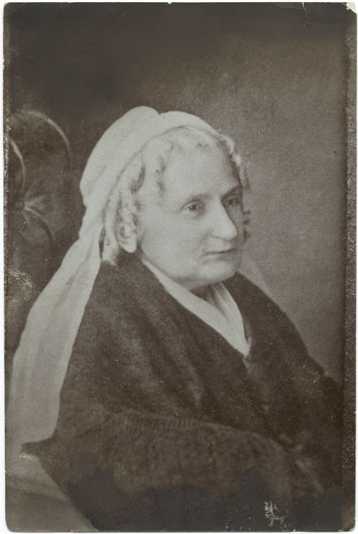 Mary Custis Lee, wife of Robert E. Lee. Source states "from a photograph in the possession of H.P. Cook, Richmond".